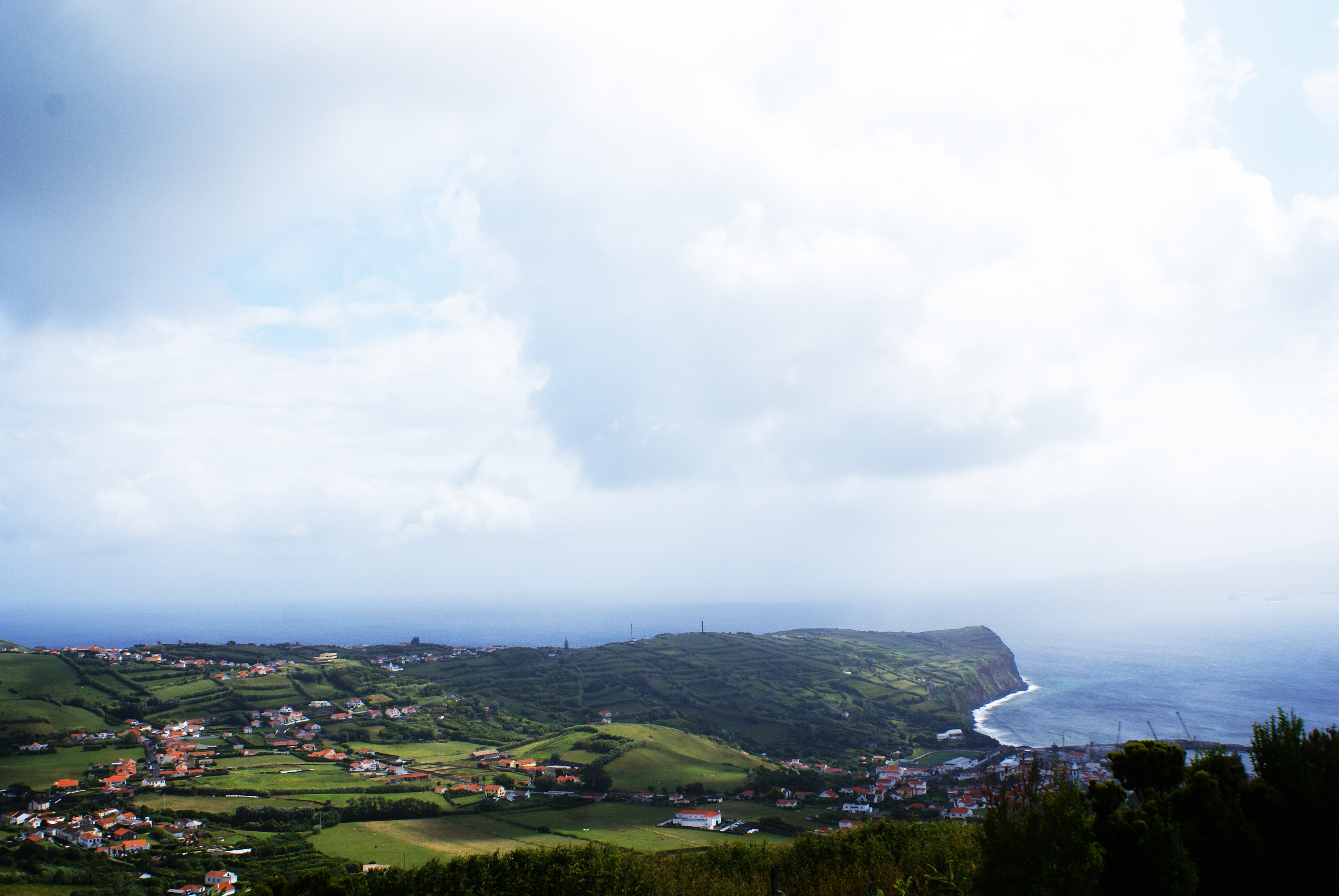 Miradouro do Monte Carneiro, promontório Ponta Espalamaca, concelho da Horta, ilha do Faial, Açores, Portugal